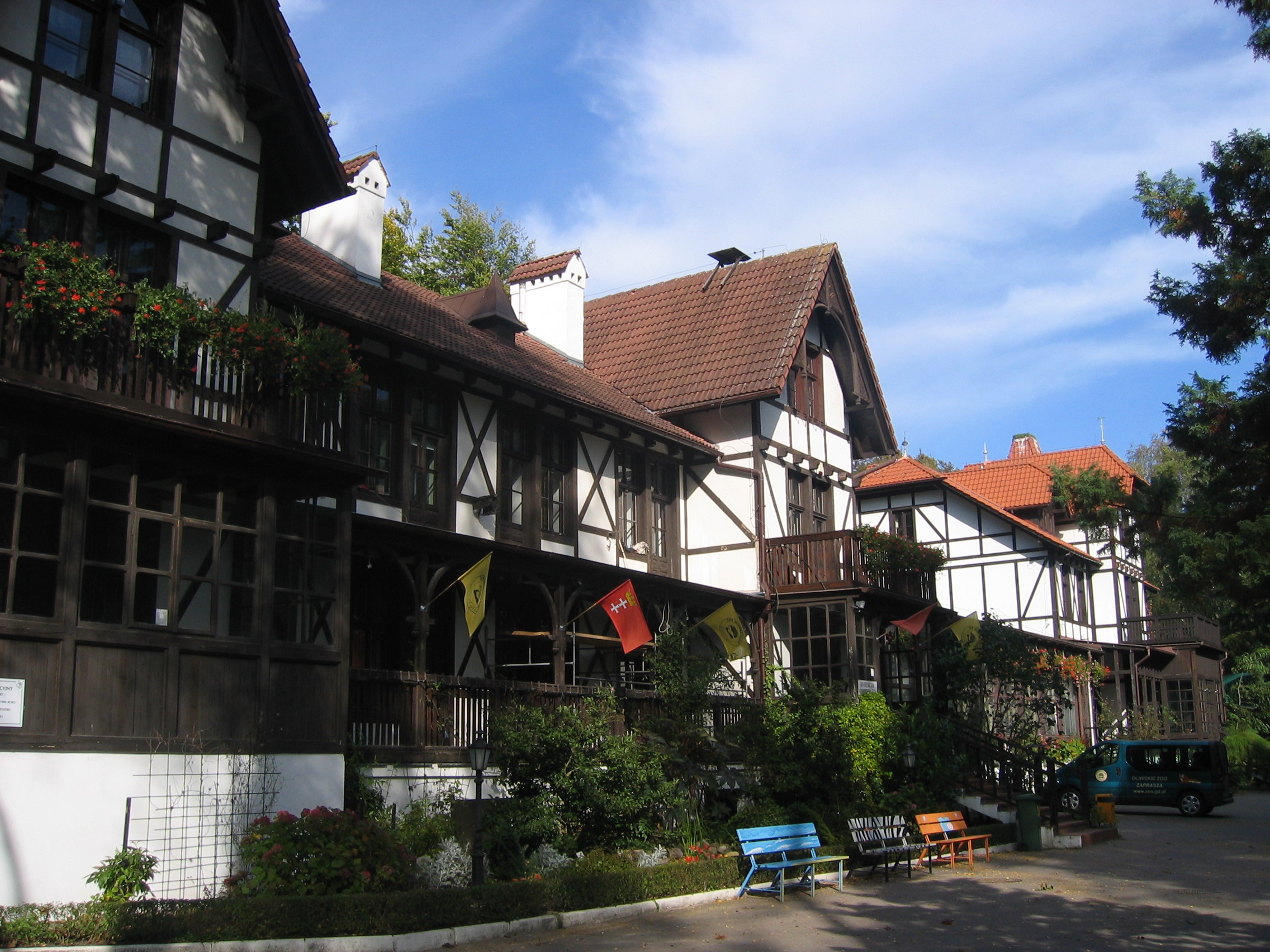 Gdańsk Oliwa, Poland, Zoo - Administration House